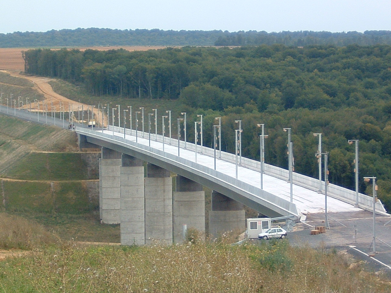 The railway bridge of Jaulny before completition